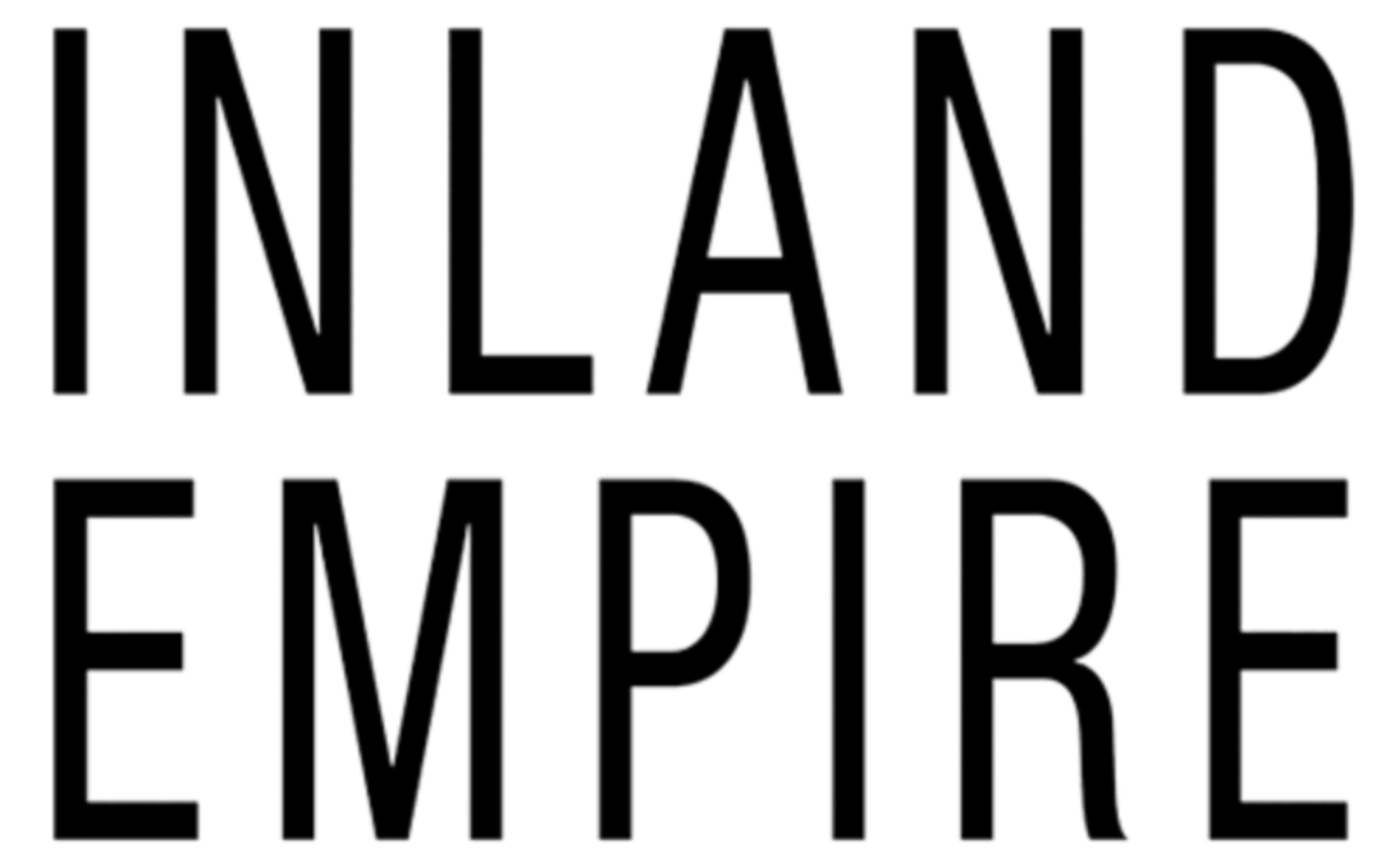 "Inland Empire" movie logo (black letters)